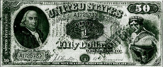 A pen-and-ink drawing by the 19th century counterfeiter Emanuel Ninger.